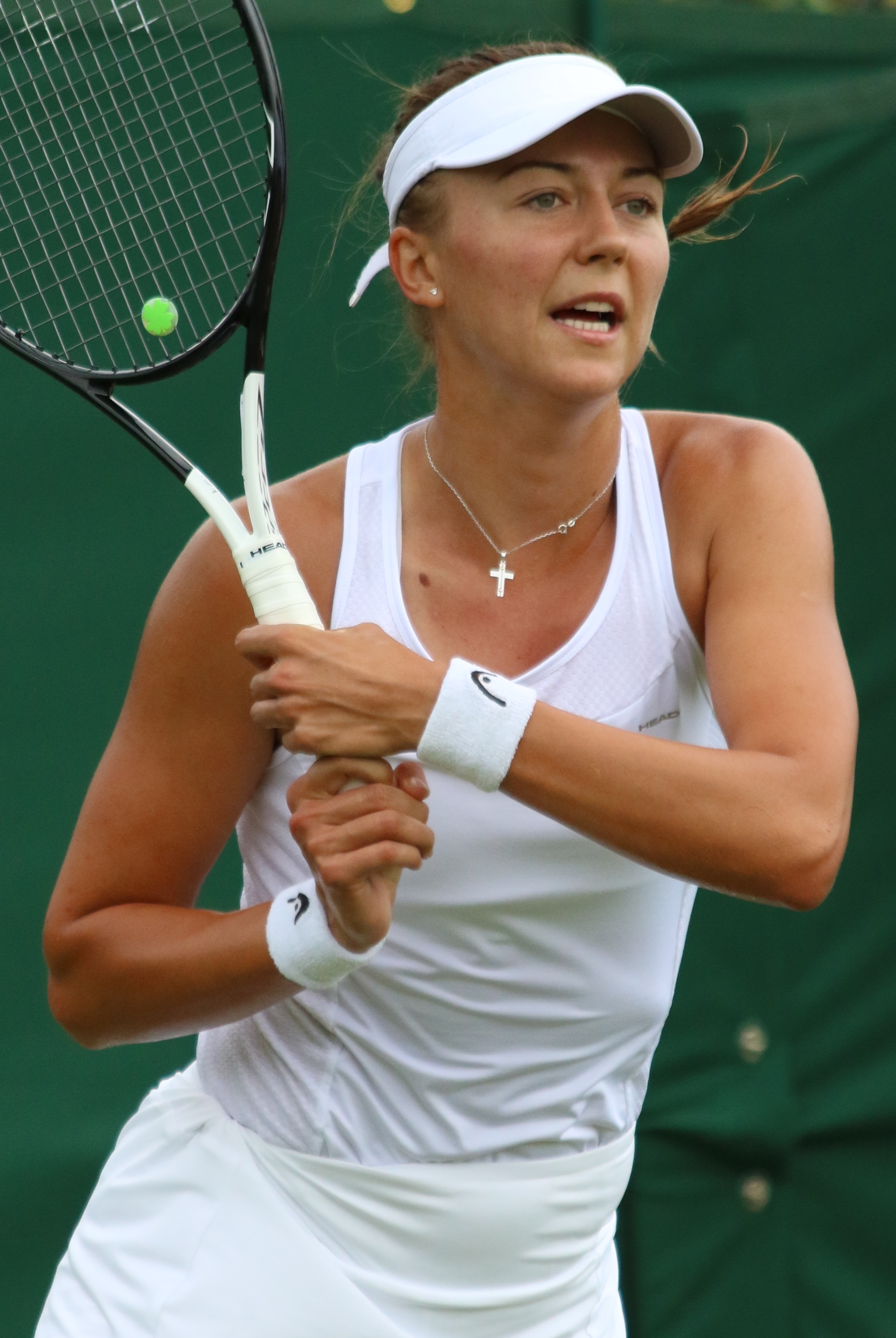 2019 Wimbledon Qualifying Tournament.